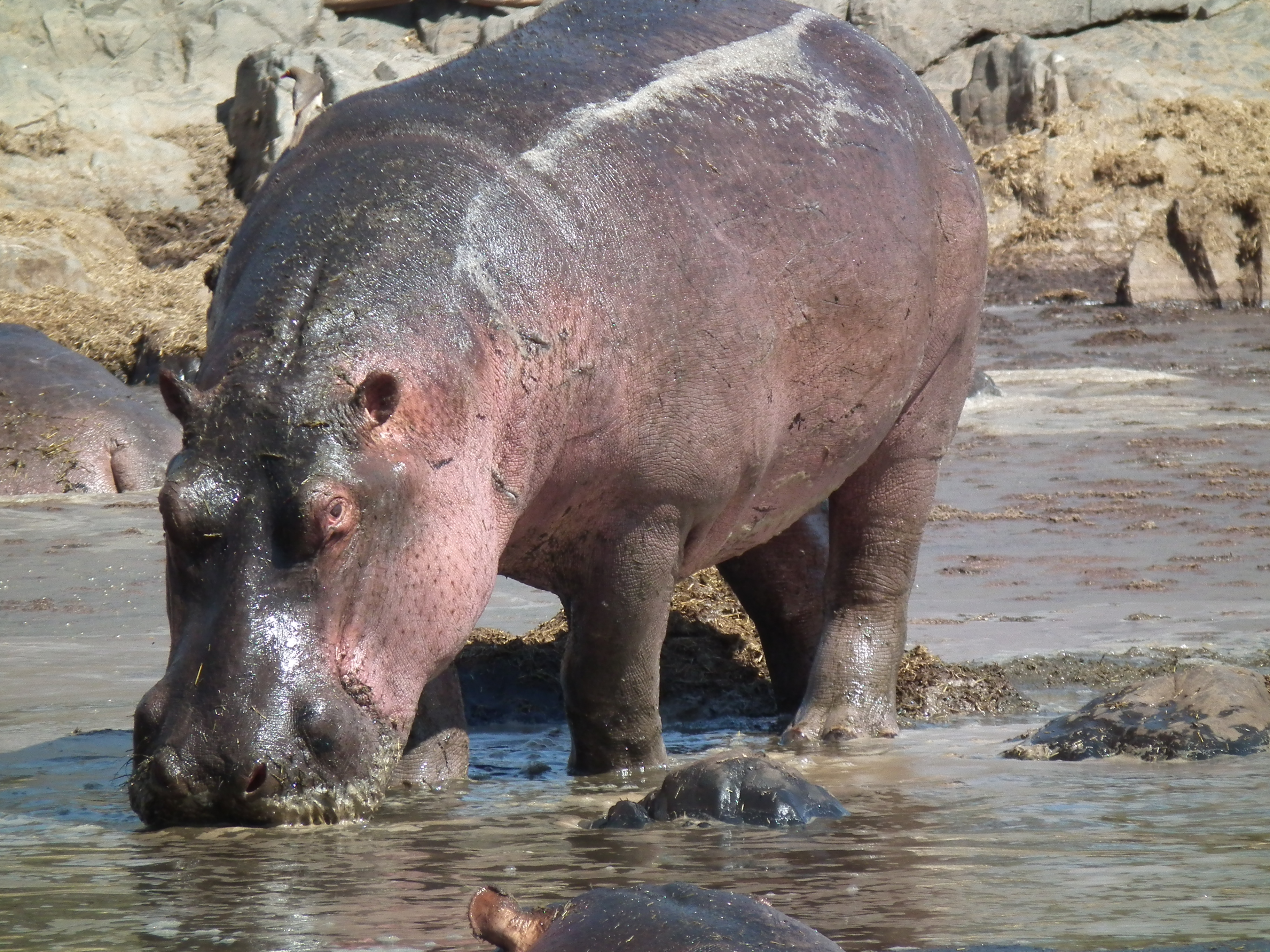 Hippopotamus amphibius from Tanzania